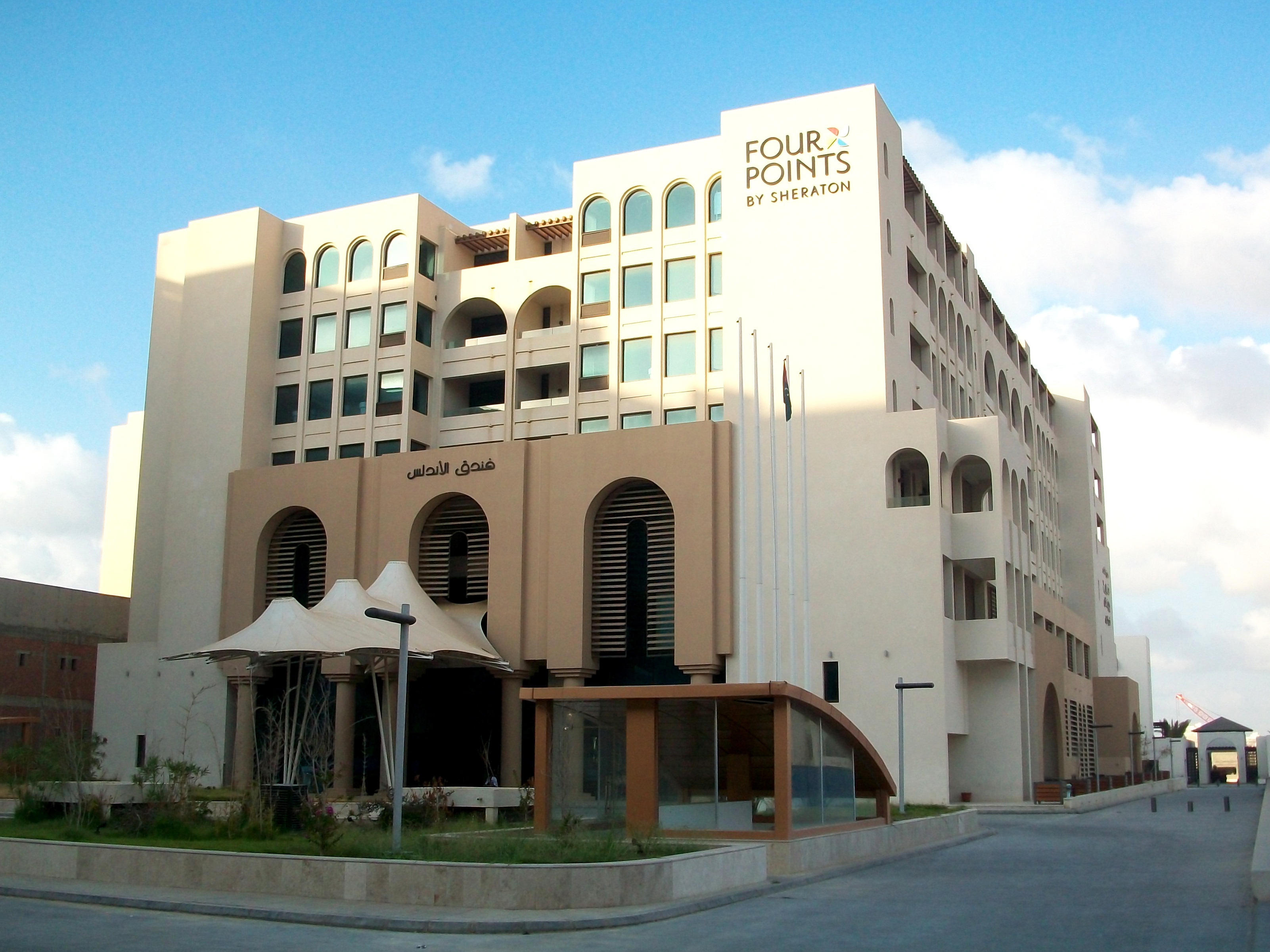 The Four Points by Sheraton Hotel in Libya's capital Tripoli in the Hay Al Andalus Tourist Complex. To the left of the hotel is the Sheraton Hotel.